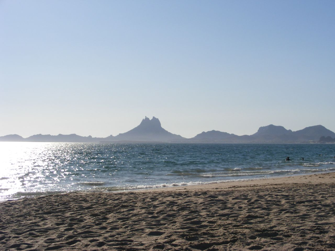 Gulf of Califnornia at San Carlos, MX